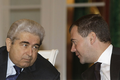 MOSCOW, KREMLIN. Dmitry Medvedev with President of Cyprus Dimitris Christofias.